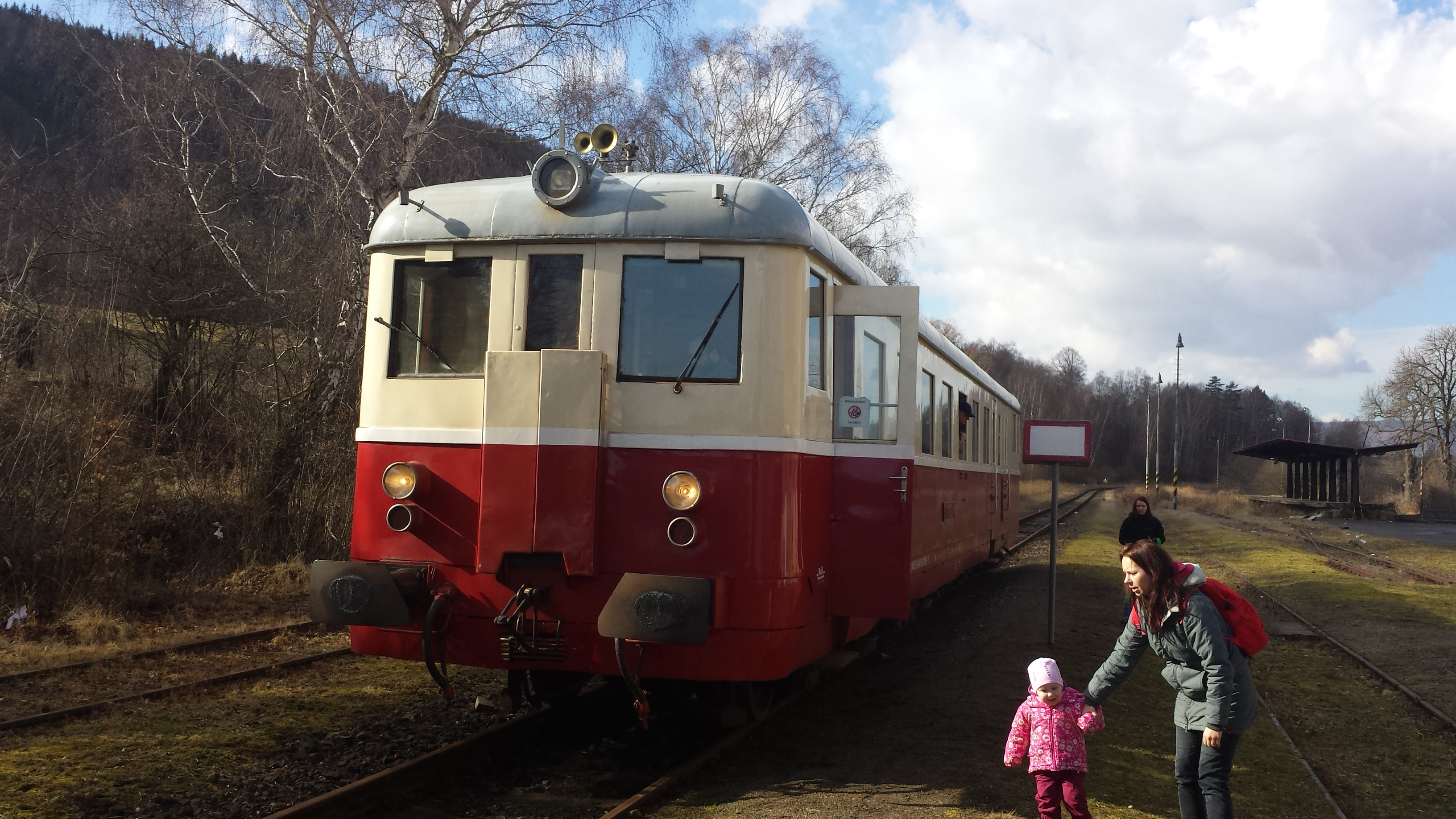 Motor diesel unit 831, Jílové u děčina, Czech Republic